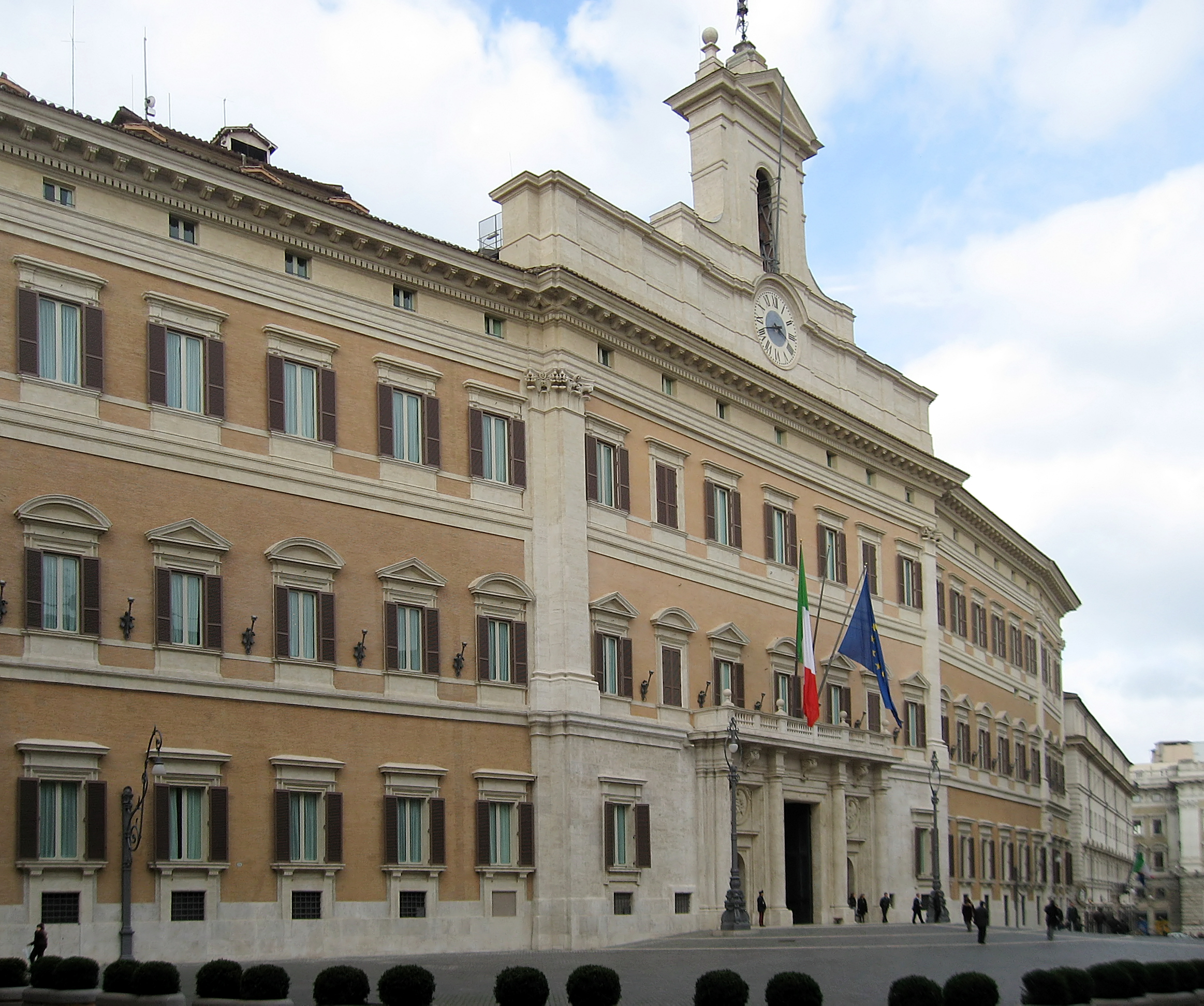 Palazzo di Montecitorio in Rome/Italy